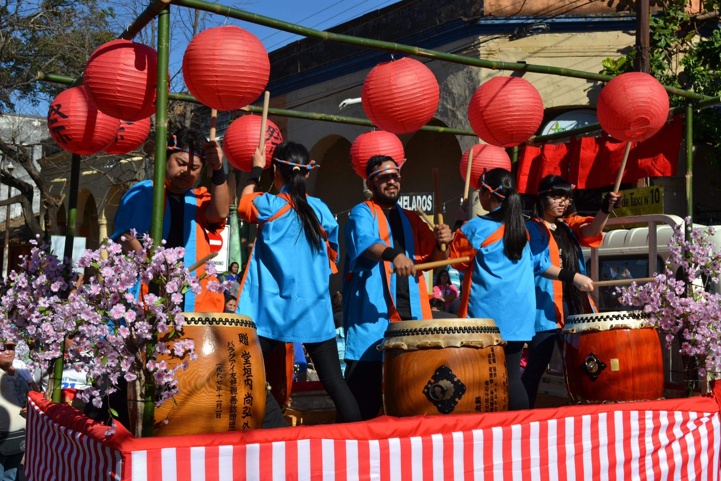 Presentación de los tradicionales tambores japoneses "taiko", durante un desfile realizado en Itauguá, Paraguay.